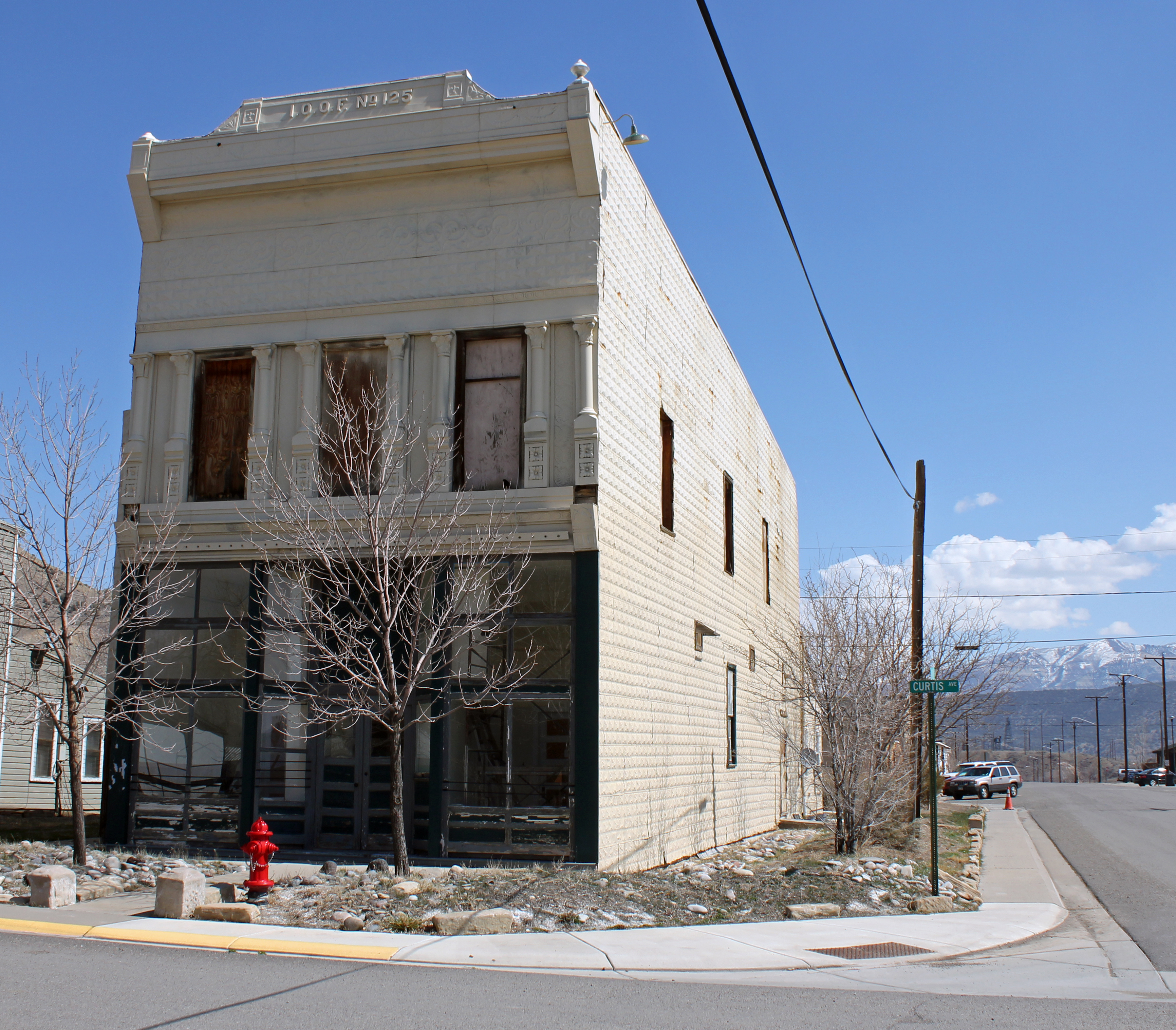 The IOOF hall — located on Curtis Street, in De Beque, Colorado. The inscription at the top front of the building reads: I.O.O.F. № 125. The property is listed on the National Register of Historic Places.